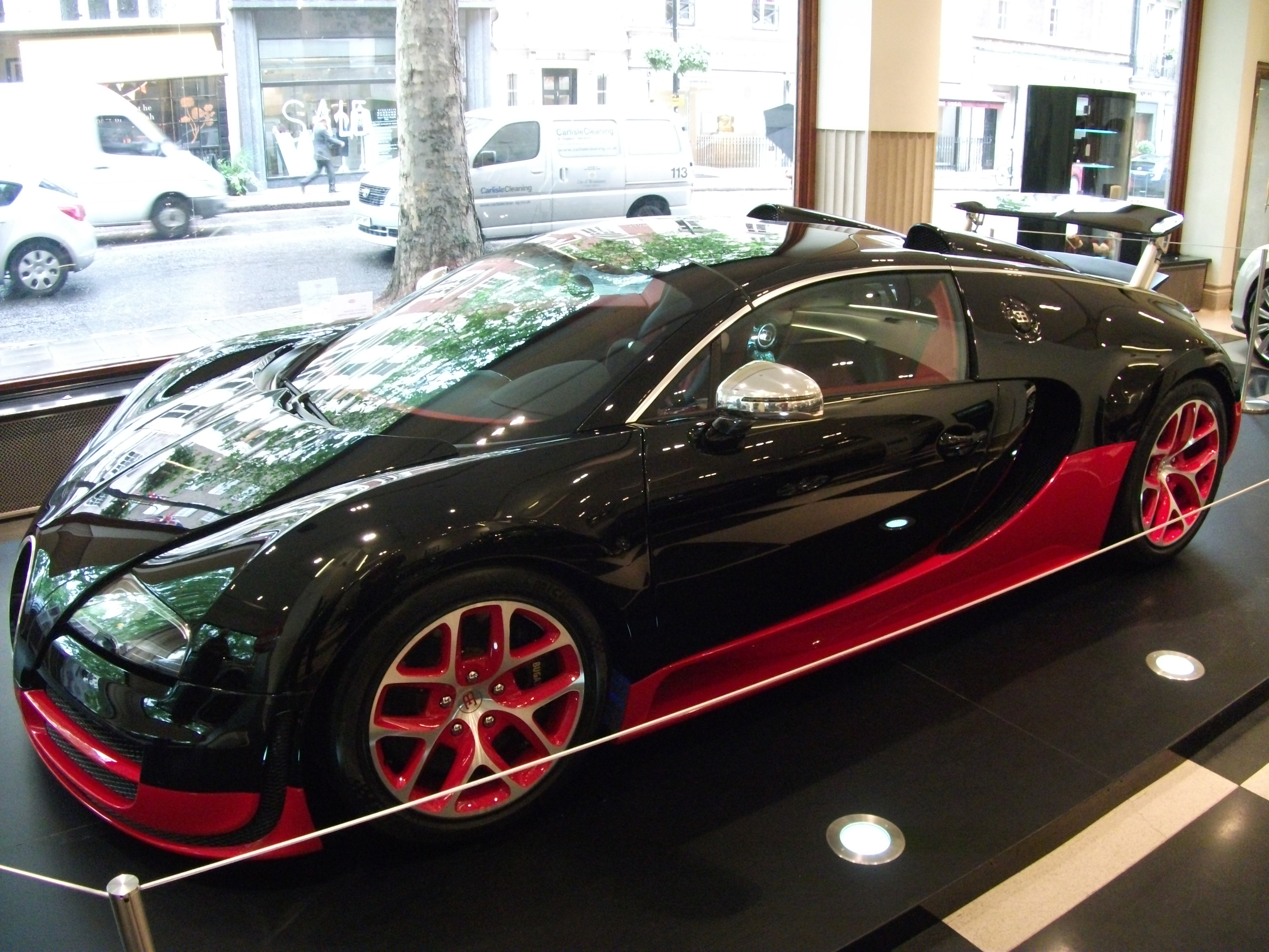 A stunning Bugatti Veyron Grand Sport Vitesse seen in London